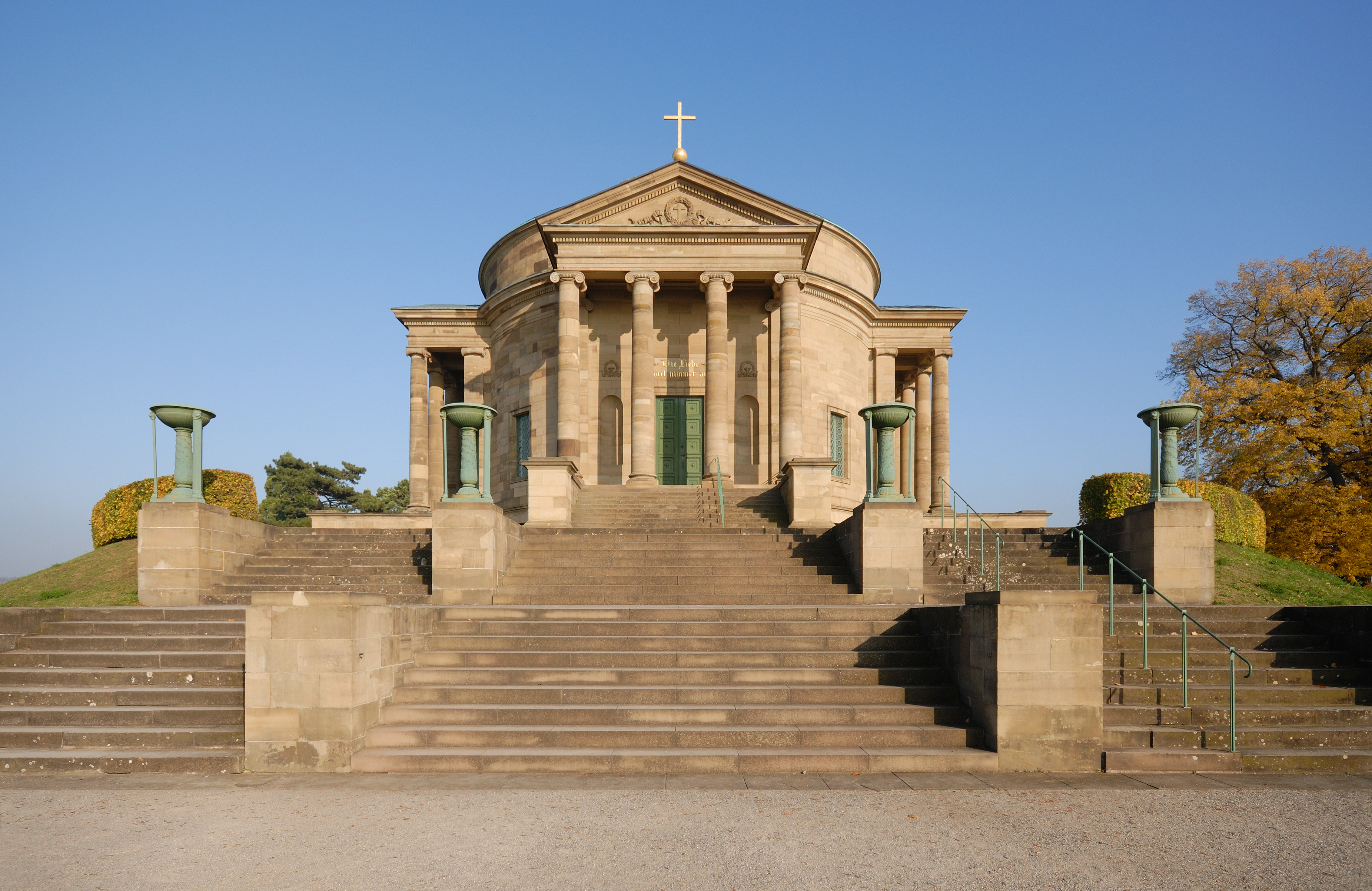 The Württemberg Mausoleum. William I of Württemberg had it built for his wife Catherine Pavlovna of Russia after her death.